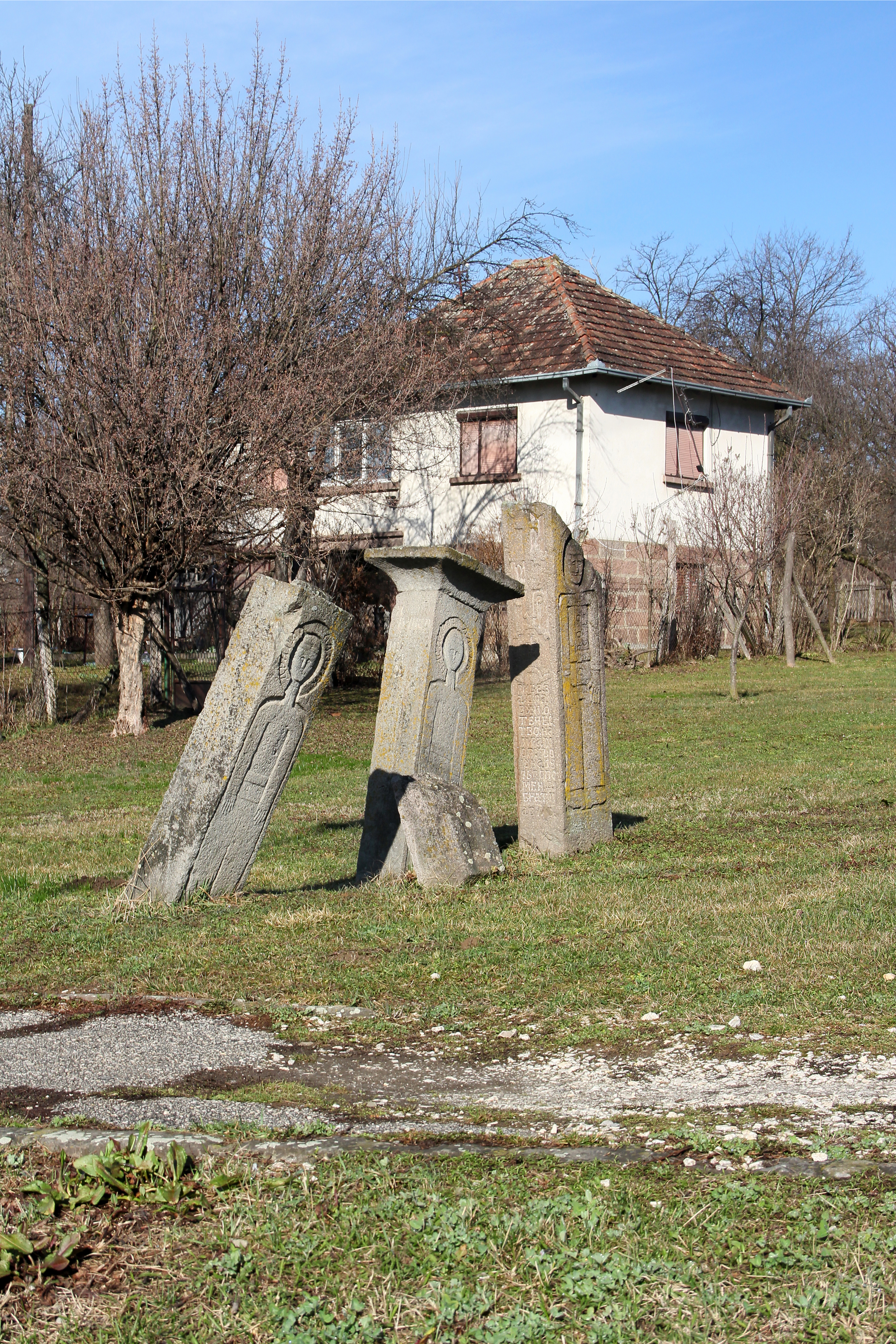 Group of roadside tombstones at the entrance to Gornji Milanovac (the former area of village Nevadе), nearby the factory "Metalac".